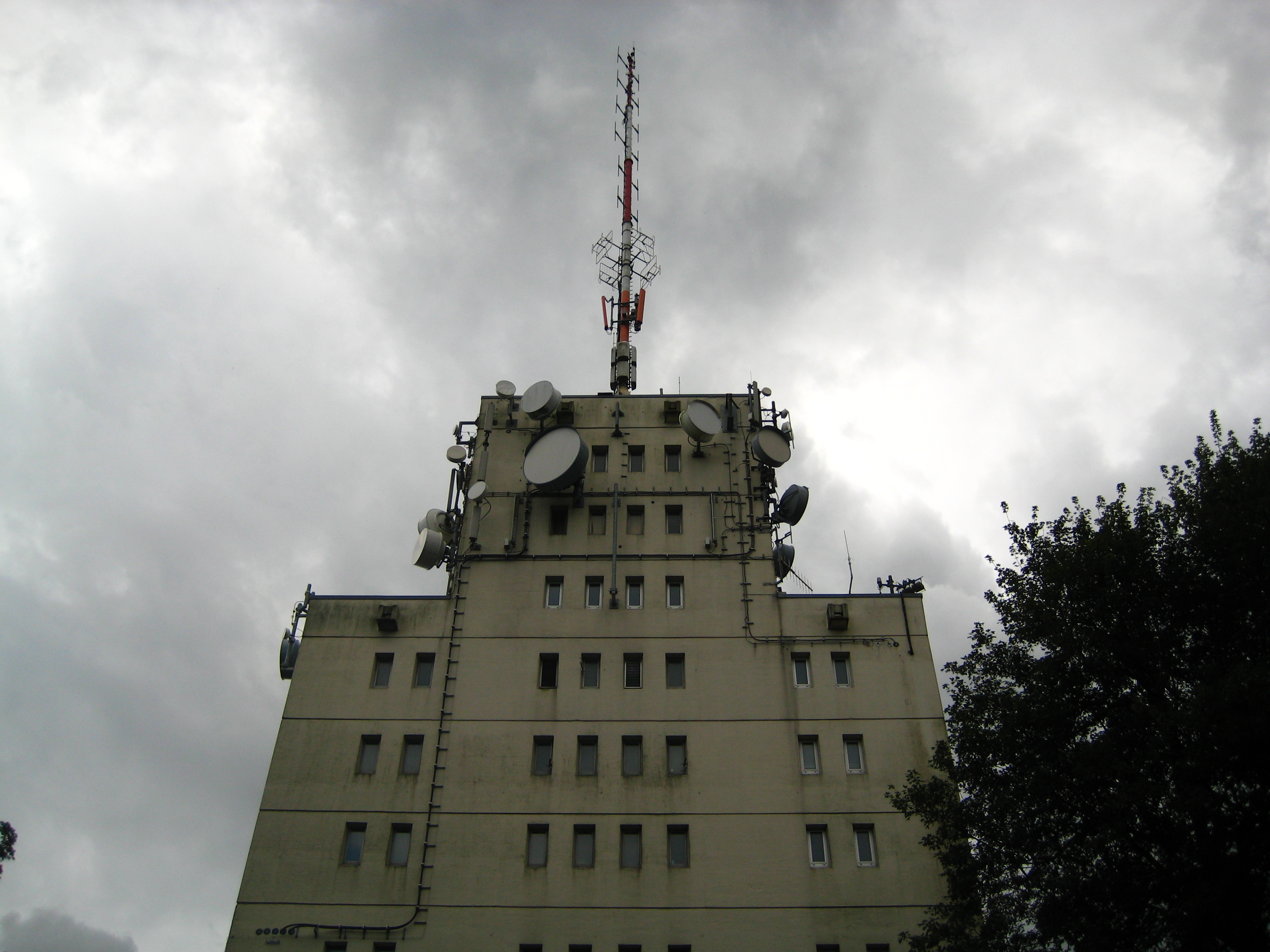 German french peace memorial (upper part) on Schaumberg, Saarland, Germany